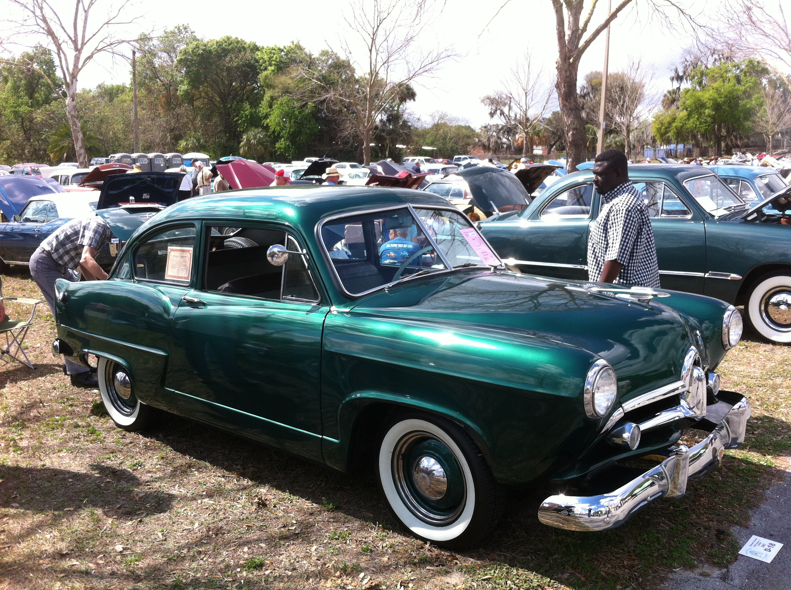 1951 Henry J automobile built by the Kaiser-Frazer Corporation. This is a compact-sized two-door sedan finished in green and powered by a 161 cu in (2.6 L) flat-head six-cylinder engine. Picture taken at the 2013 Antique Automobile Club of America (AACA) meet in Lakeland, Florida, USA.